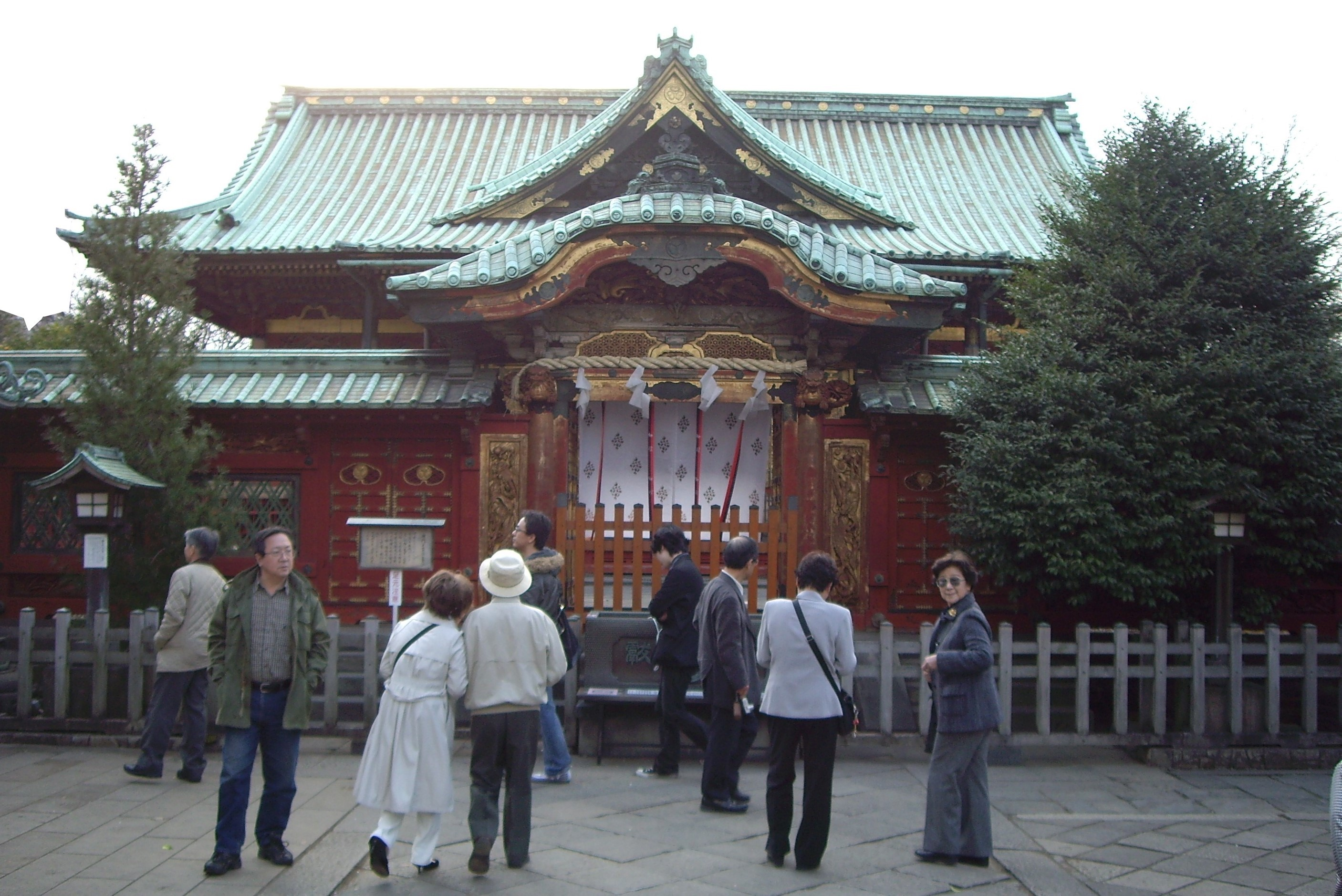 Tokyo: Ueno Tôshôgû for Tokugawa Ieyasu